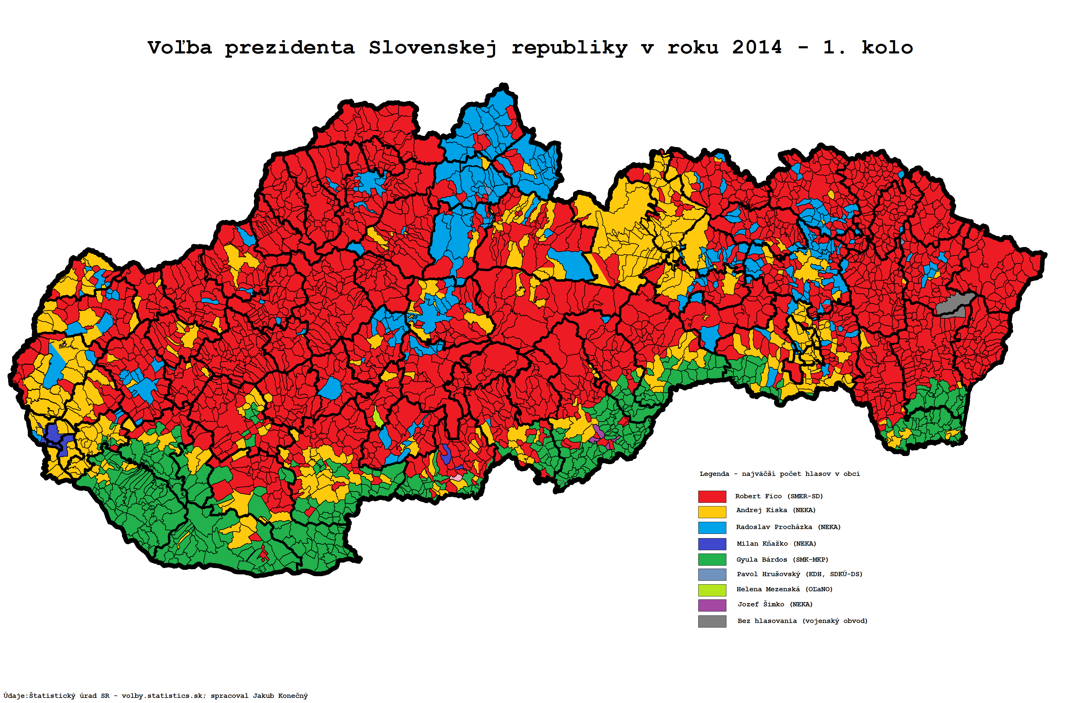 The results of the first round of presidential elections in Slovakia in 2014. The municipalities are coloured in the colour of winning candidate in each municipality. In cases with indecisive result, both candidates' colours are included.